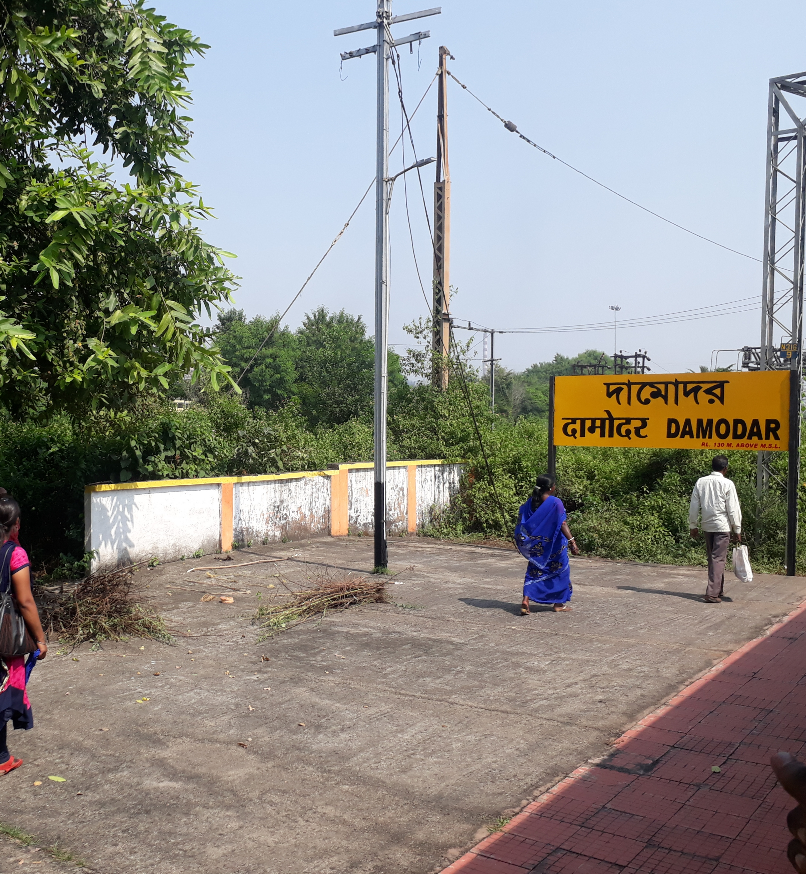 Damodar railway station in Adra-Asansol line, Purulia